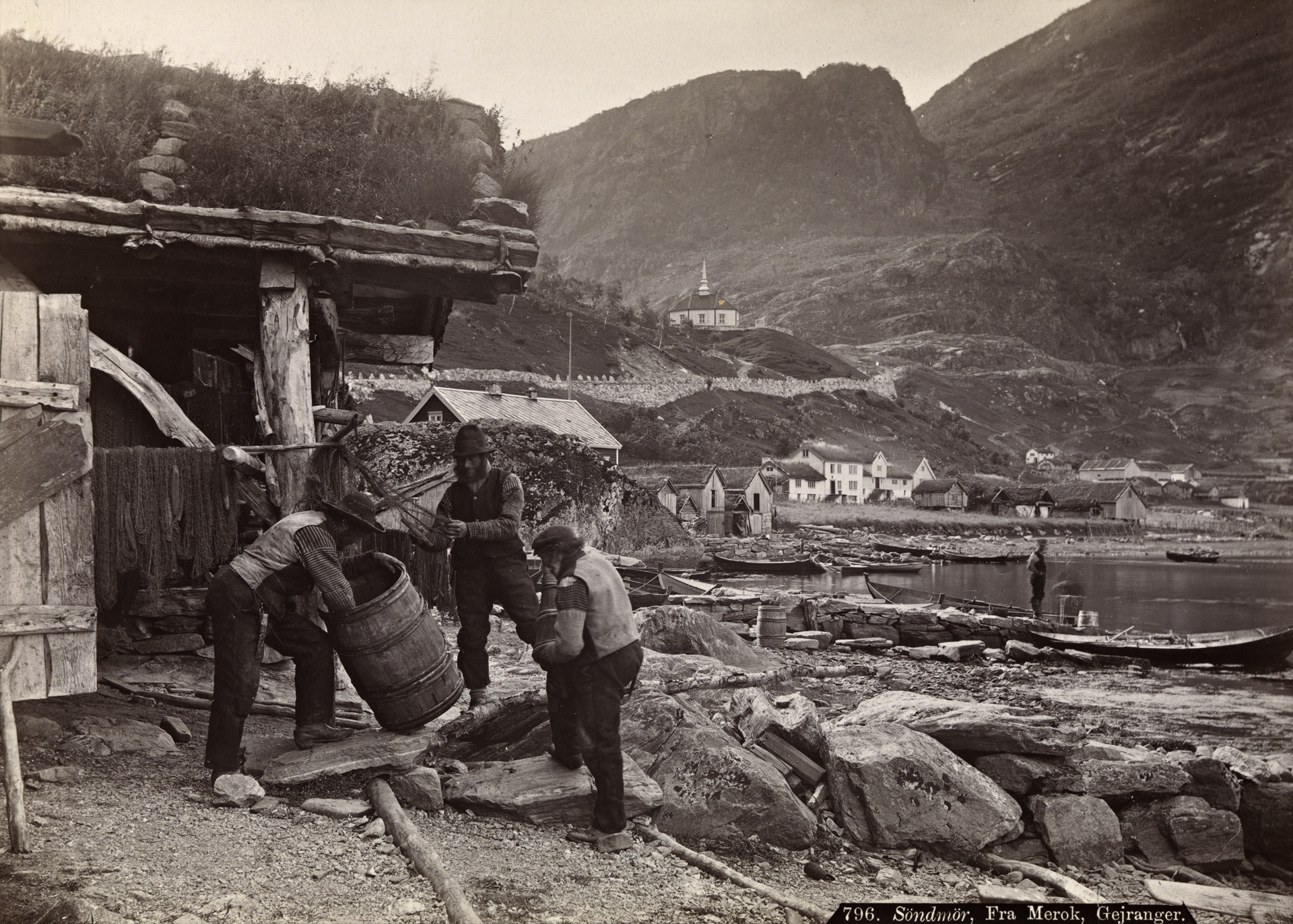 Tittel / Title: 796. Söndmör, Fra Merok, Gejranger Dato / Date: 1880-1890 Fotograf / Photographer: Axel Lindahl (1841-1906) Sted / Place: Møre og Romsdal, Stranda Eier / Owner Institution: Nasjonalbiblioteket / National Library of Norway Lenke / Link: Bildesignatur / Image Number: bldsa_AL0796